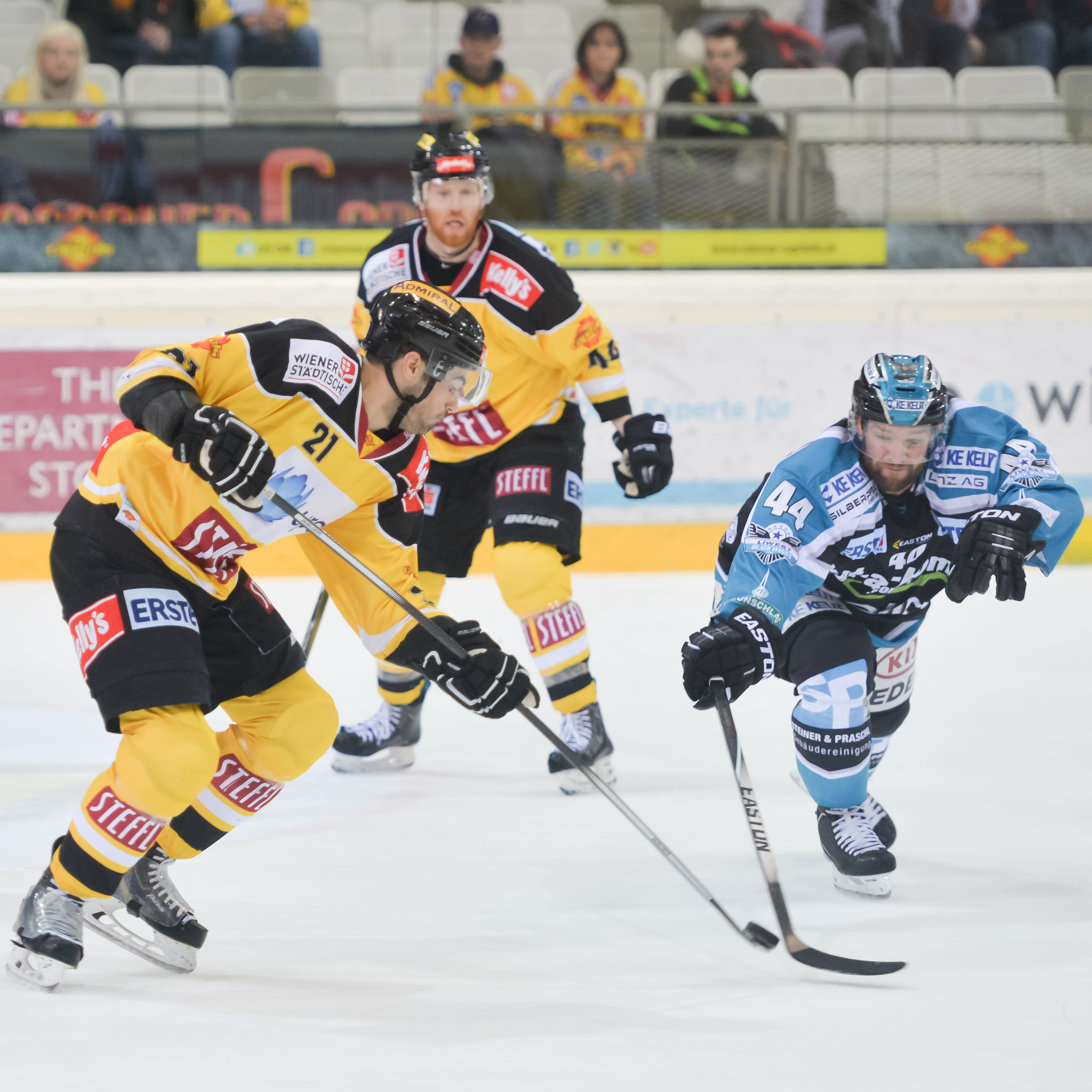 EBEL Vienna Capitals vs. EHC Liwest Black Wings Linz 2016-01-24